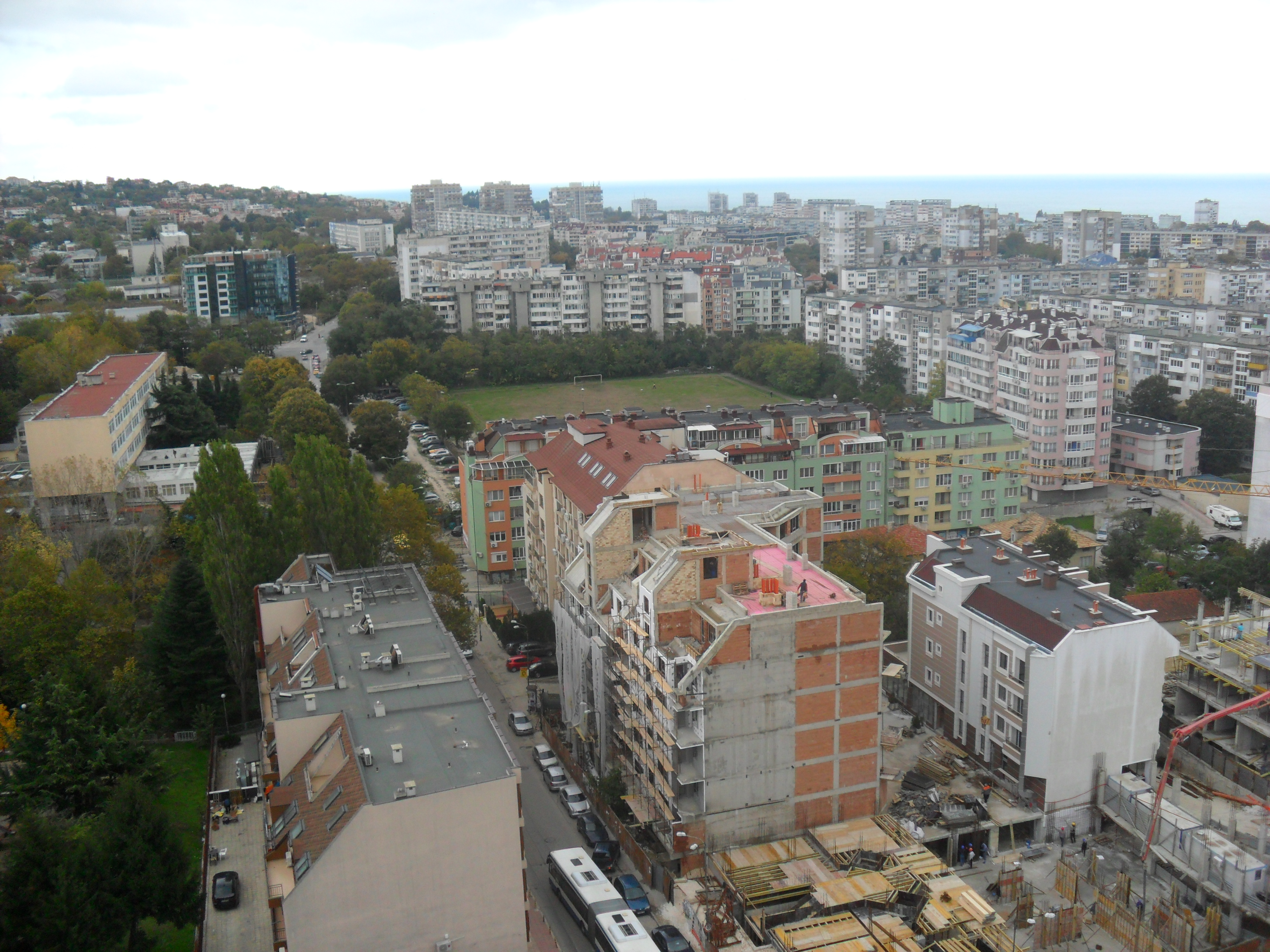 Part of Neighborhood Vasil Levski,Varna,Bulgaria